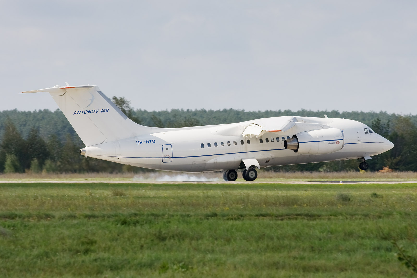 Antonov An-148